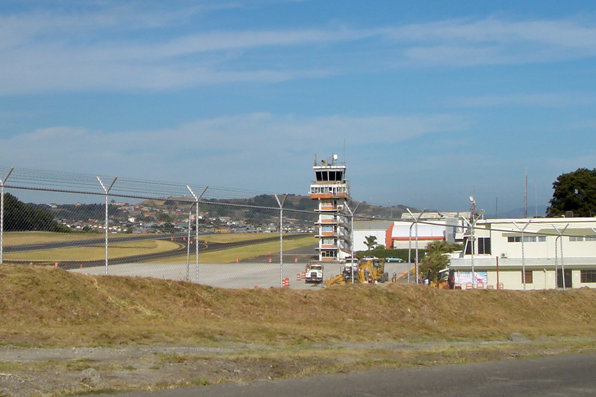 Tobias Bolaños International Airport, San Jose, Costa Rica